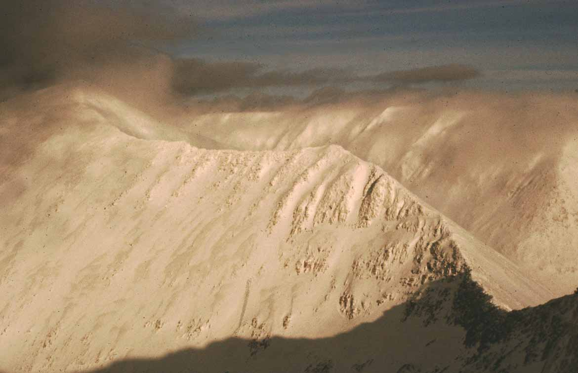 Carn Mor Dearg and the arete as seen from Ben Nevis